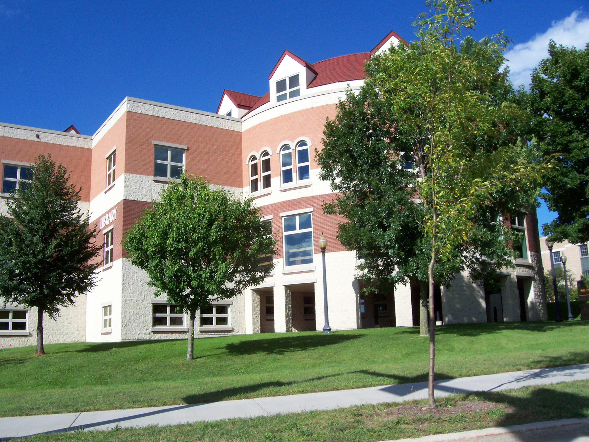 The Marathon County, Wisconsin library in Wausau, Wisconsin, USA along Wisconsin Highway 52.